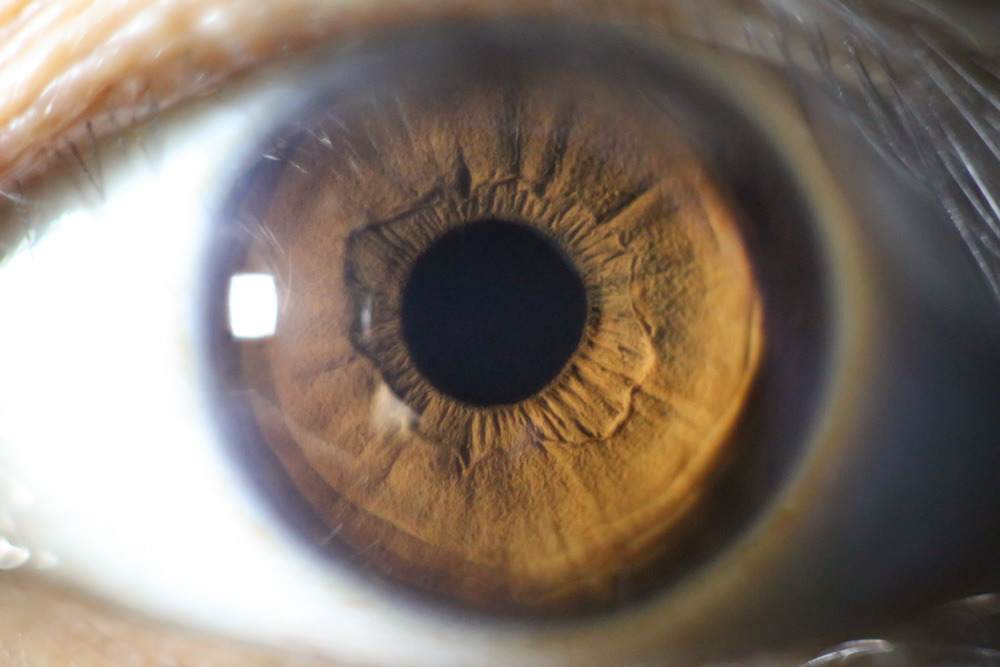 Left eye close-up photograph of a light brown-eyed Asian teenage girl